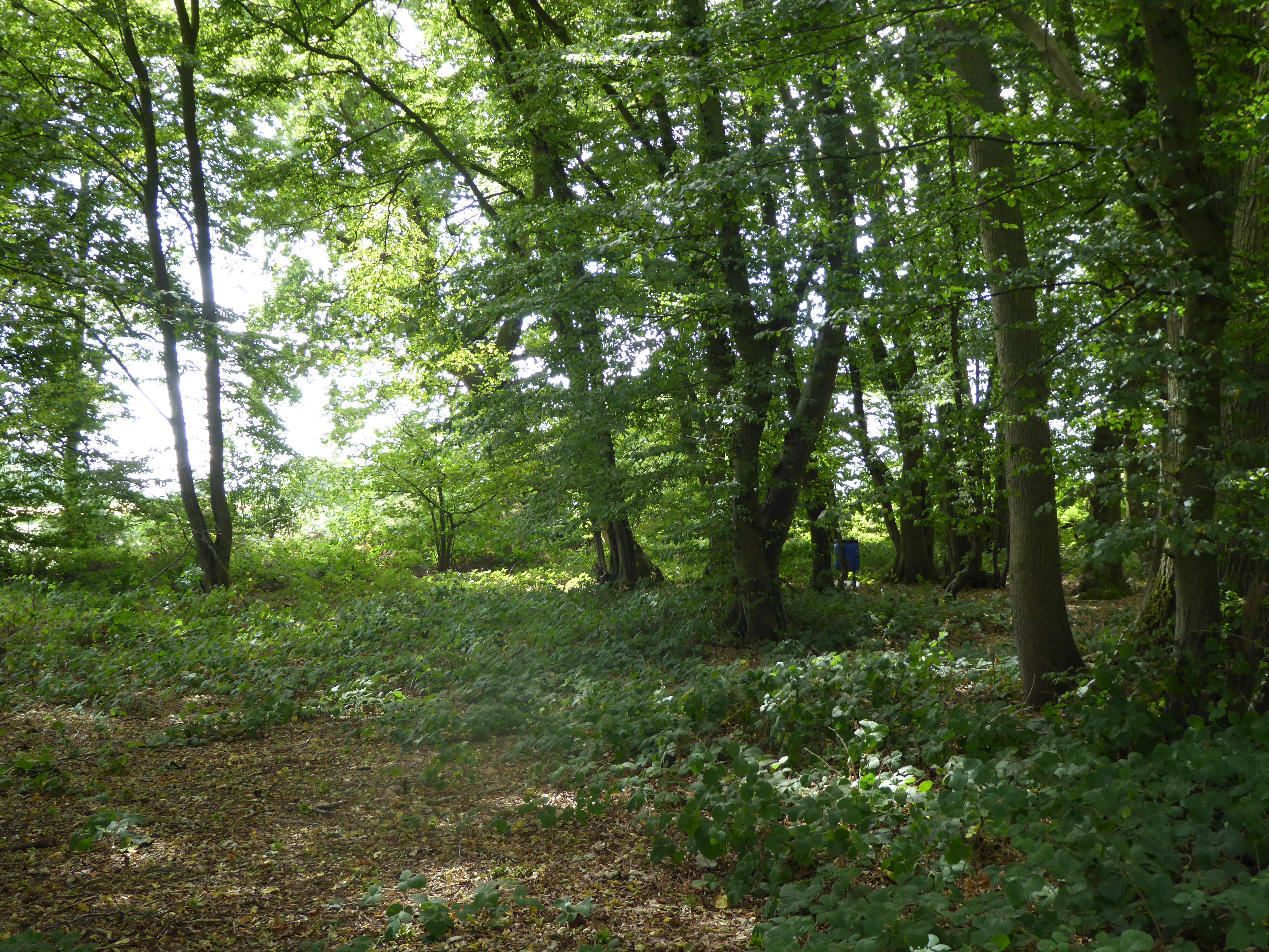 Shotesham Little Wood is part of Shotesham-Woodton Hornbeam Woods, a Site of Special Scientific Interest east of Newton Flotman in Norfolk.